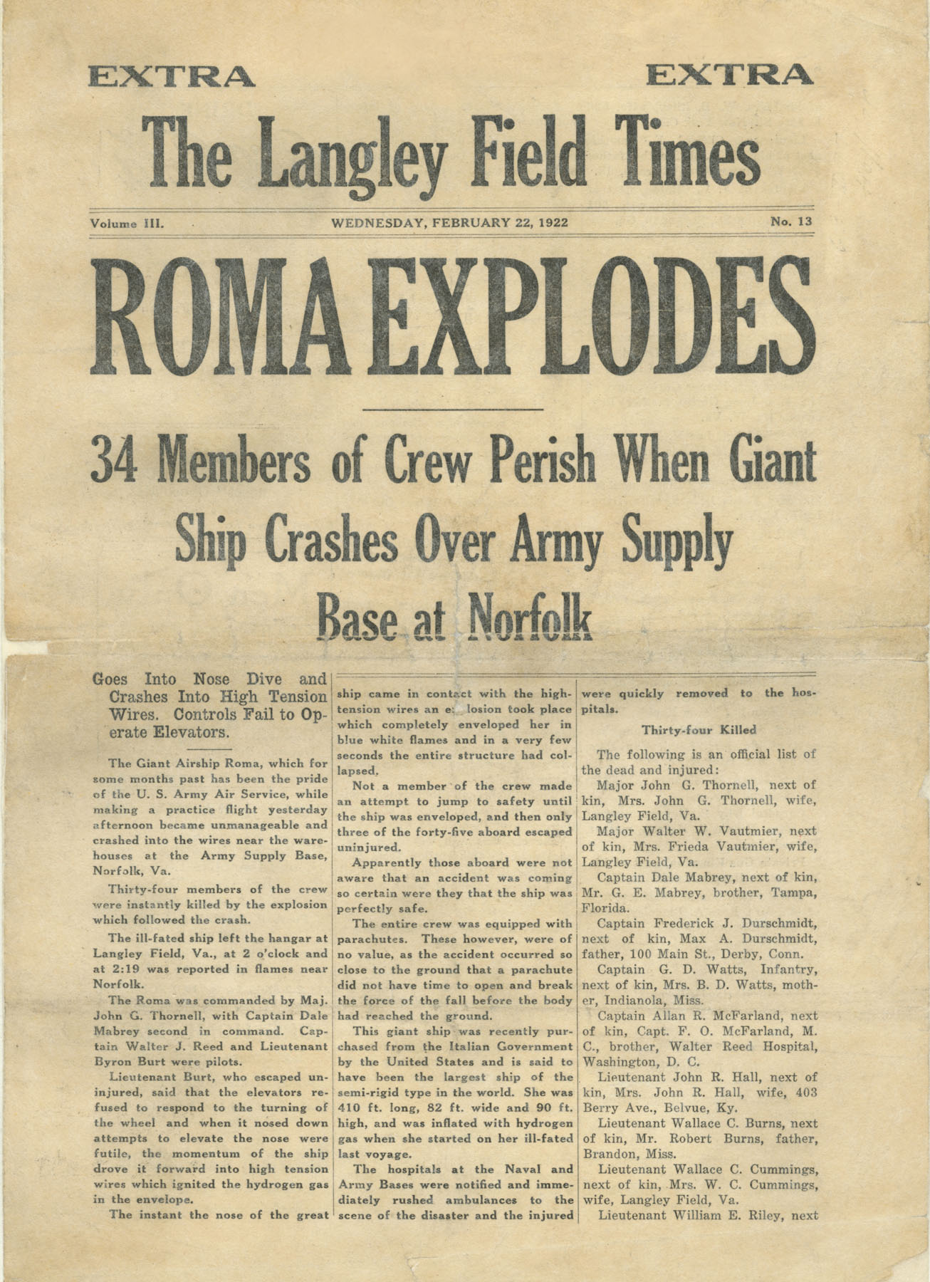 1922 newspaper about the Roma (airship) tragedy.